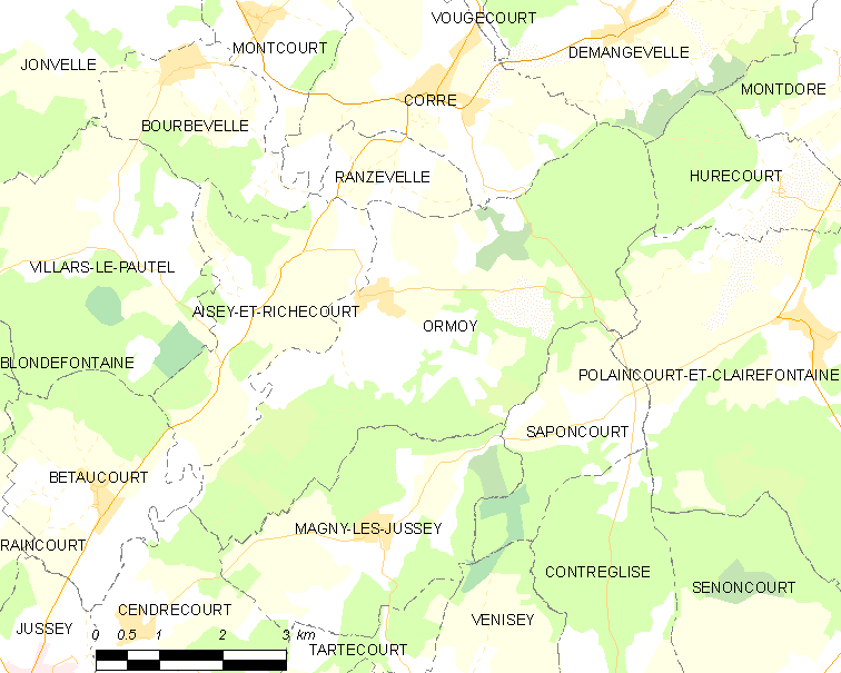 Map of French municipality